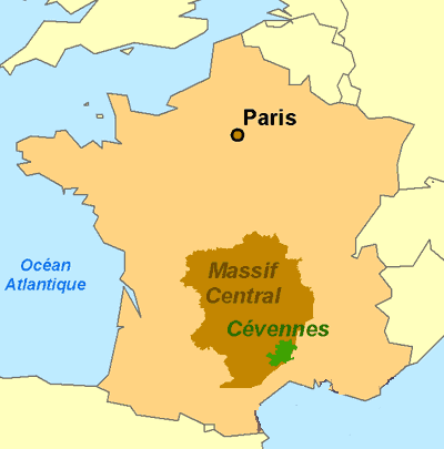 The Cevennes on the french map